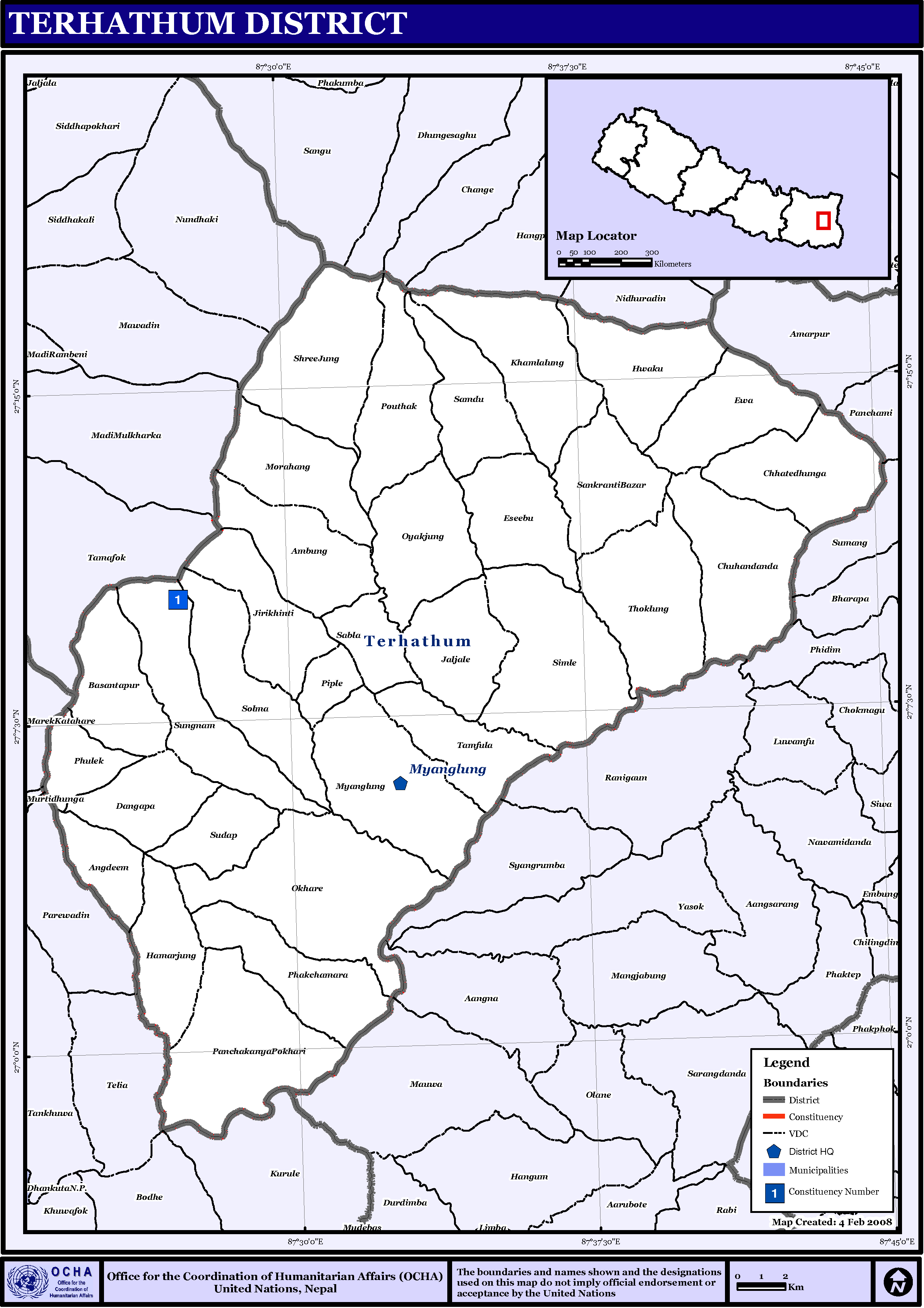 Map displaying Village Development Committees in Terhathum District, Nepal